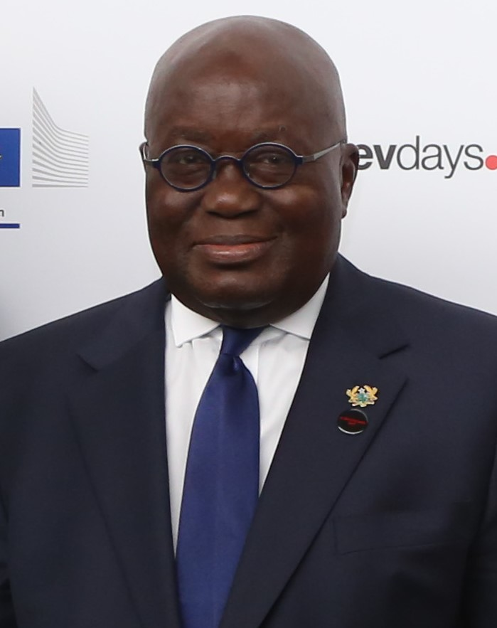 Cropped photograph of Nana Akufo-Addo at the European Development Days forum in Brussels in June 2017